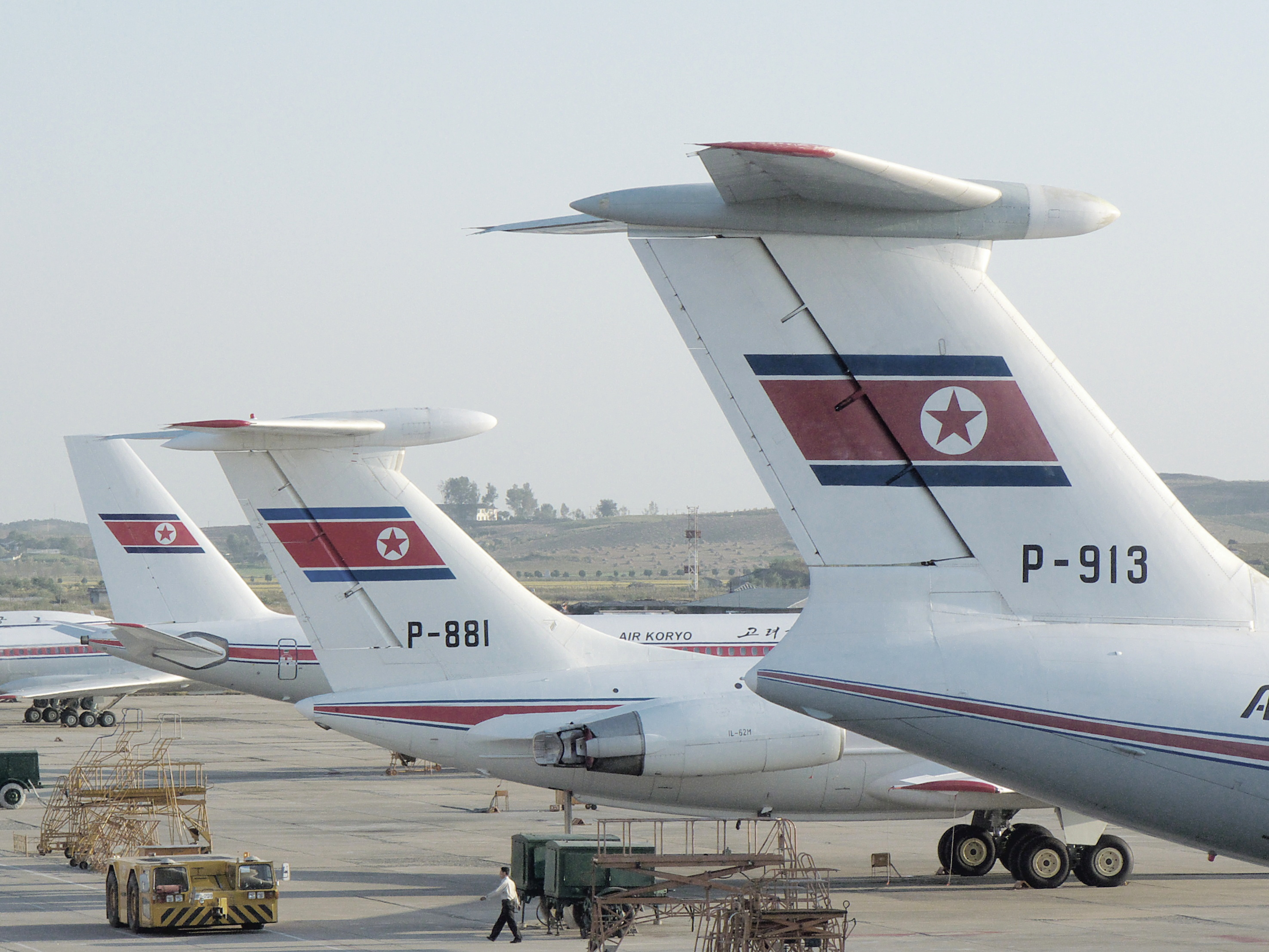 Il-76, Il-62 and Tu-204 of Air Koryo at Sunan Airport